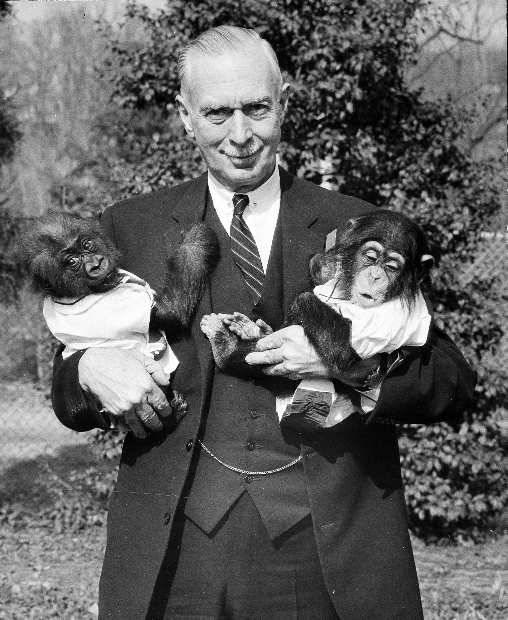 Secretary Leonard Carmichael at the National Zoological Park with a baby Gorilla gorilla, Leonard (left), and Common Chimpanzee (right). 1961.